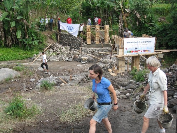 Example of a CISV IPP educational program in Indonesia in 2008